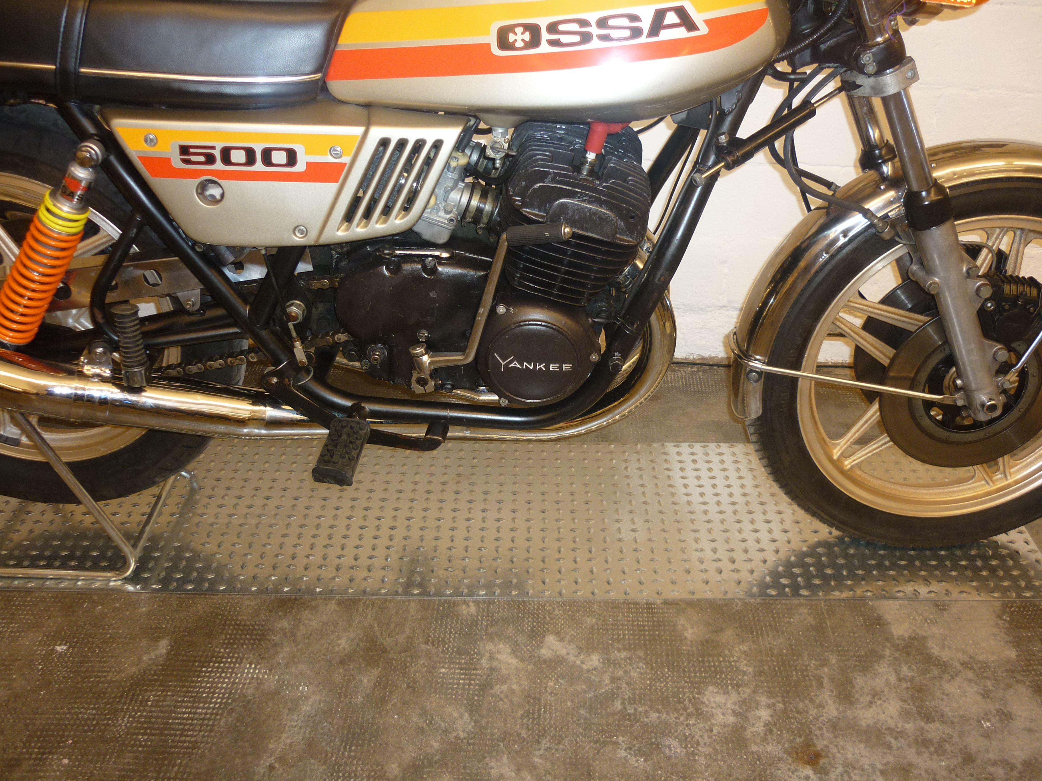 OSSA Yankee 500cc (1976), with a Yankee engine made in USA.Museu de la Moto de Barcelona (Catalonia).